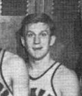 The 1947–48 Anderson Packers basketball team